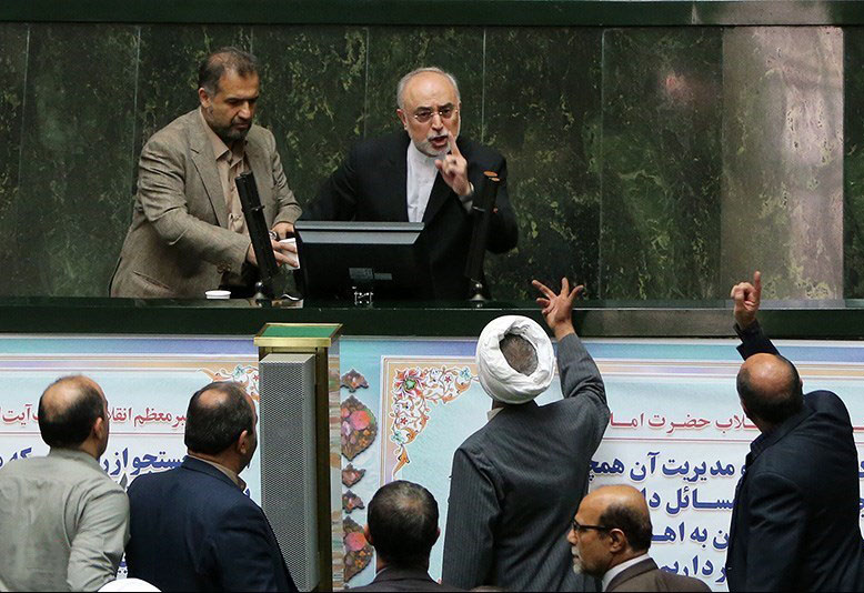 Anti-JCPOA representatives of Islamic Consultative Assembly protested Ali Akbar Saheli and threatened him to death.